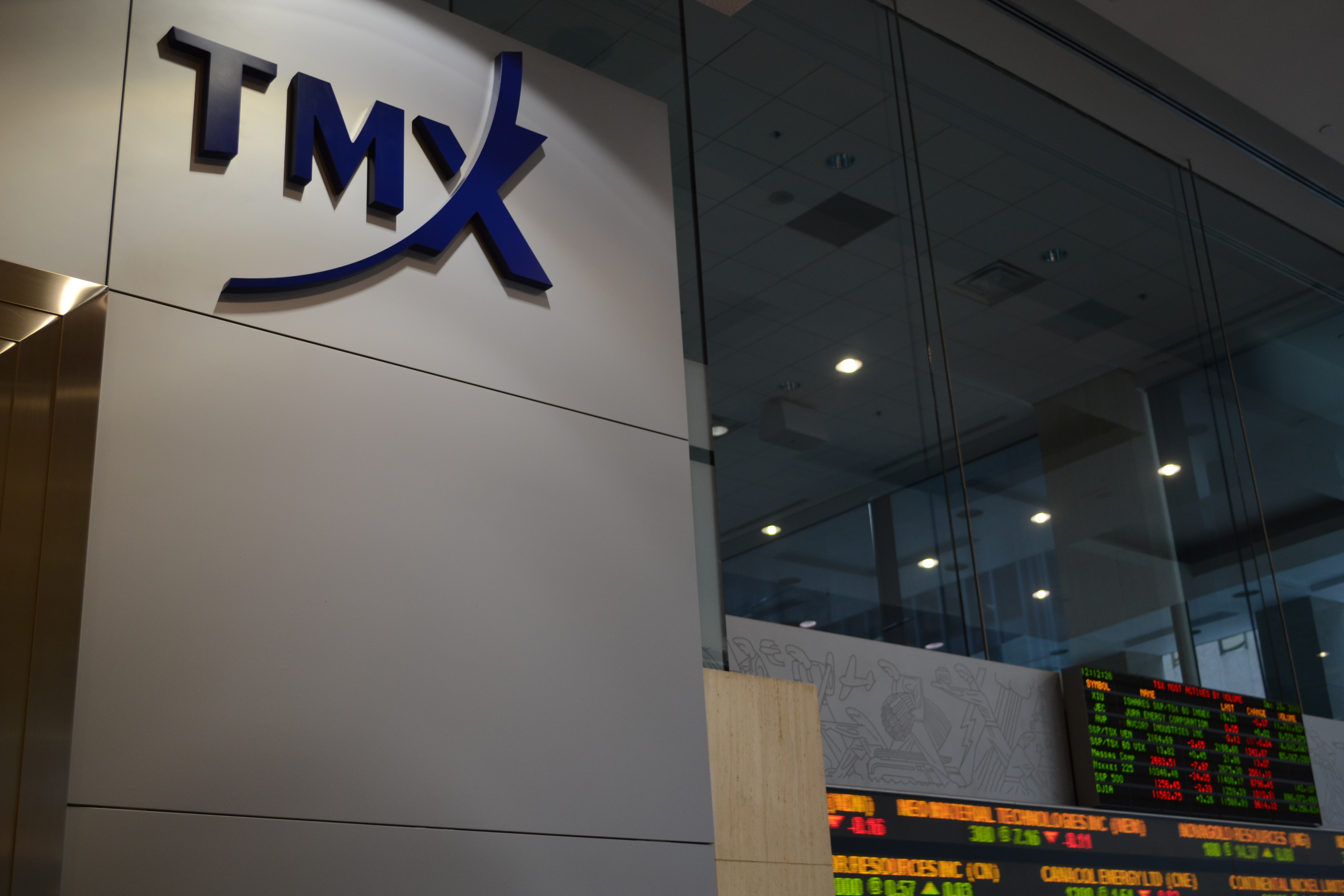 TMX Group